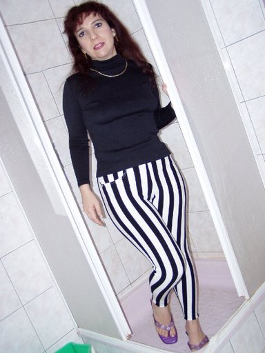 Black and white leggings